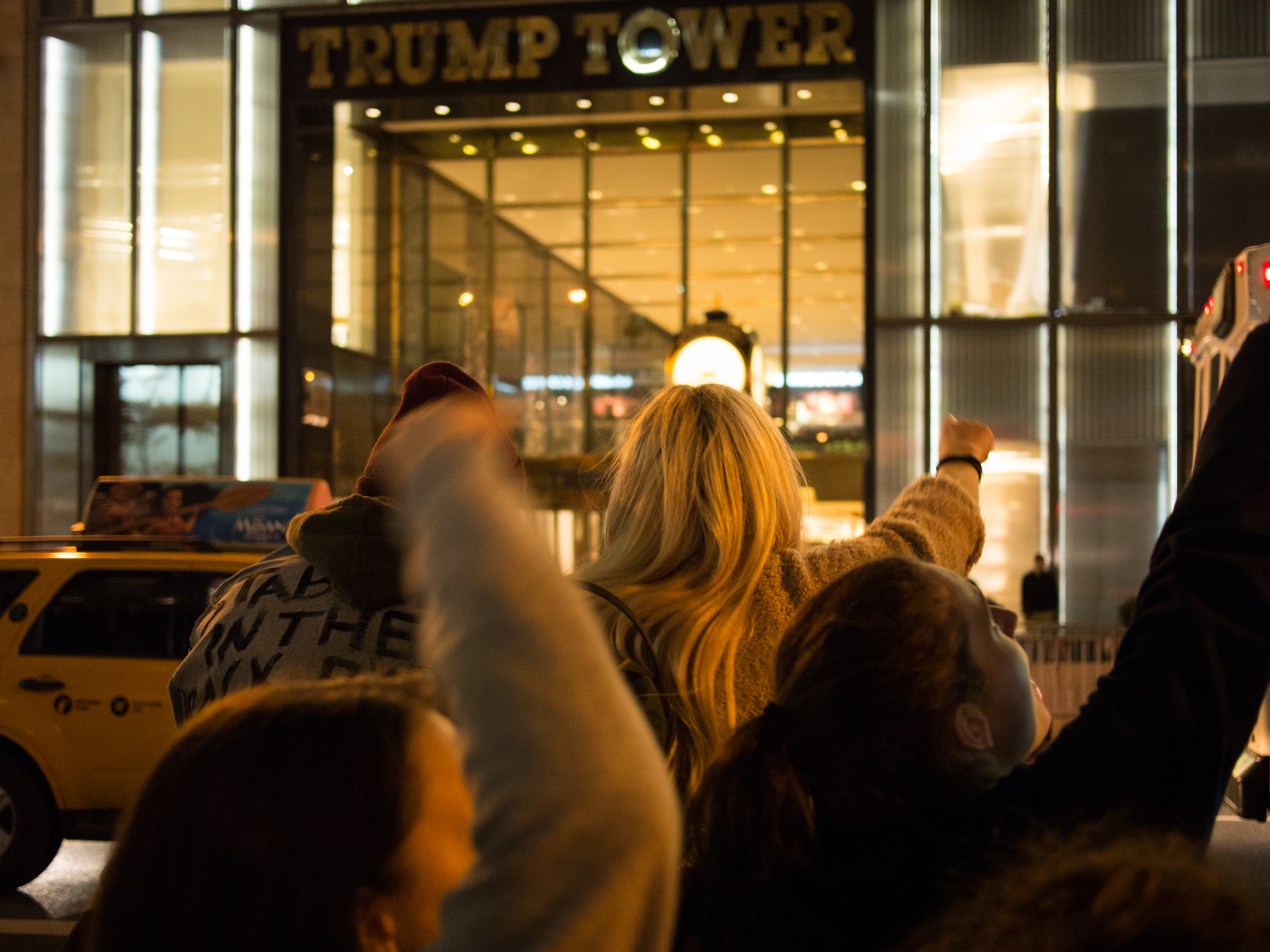 Protest against the election of Donald Trump on November 10, 2016, in front of Trump Tower on 5th Avenue in Manhattan.